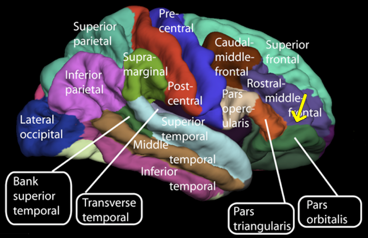 Anatomical subregions of cerebral cortex. Arrow pointed at orbital part of the inferior frontal gyrus.